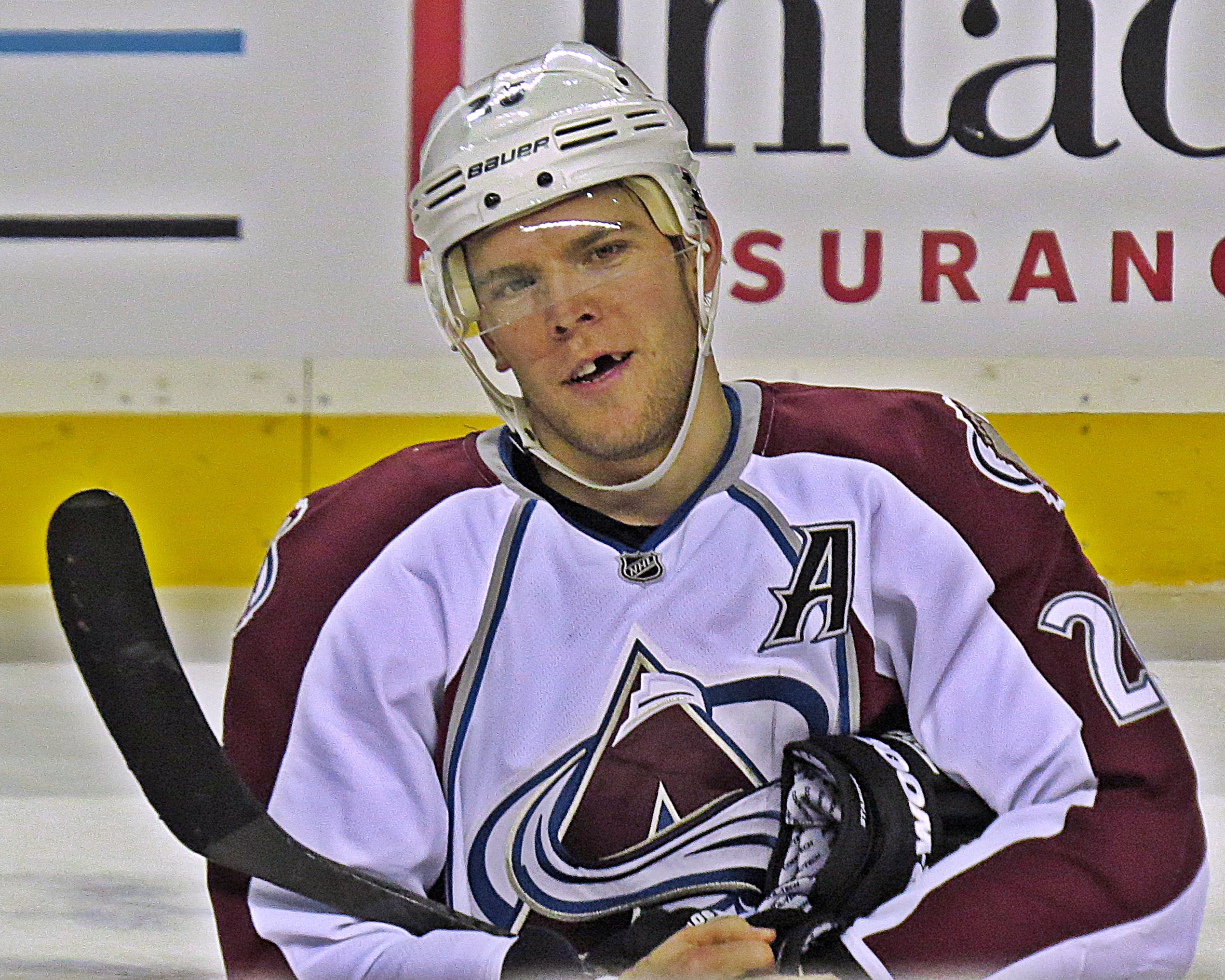 Paul Stastny of the Colorado Avalanche during the 2013–14 season.